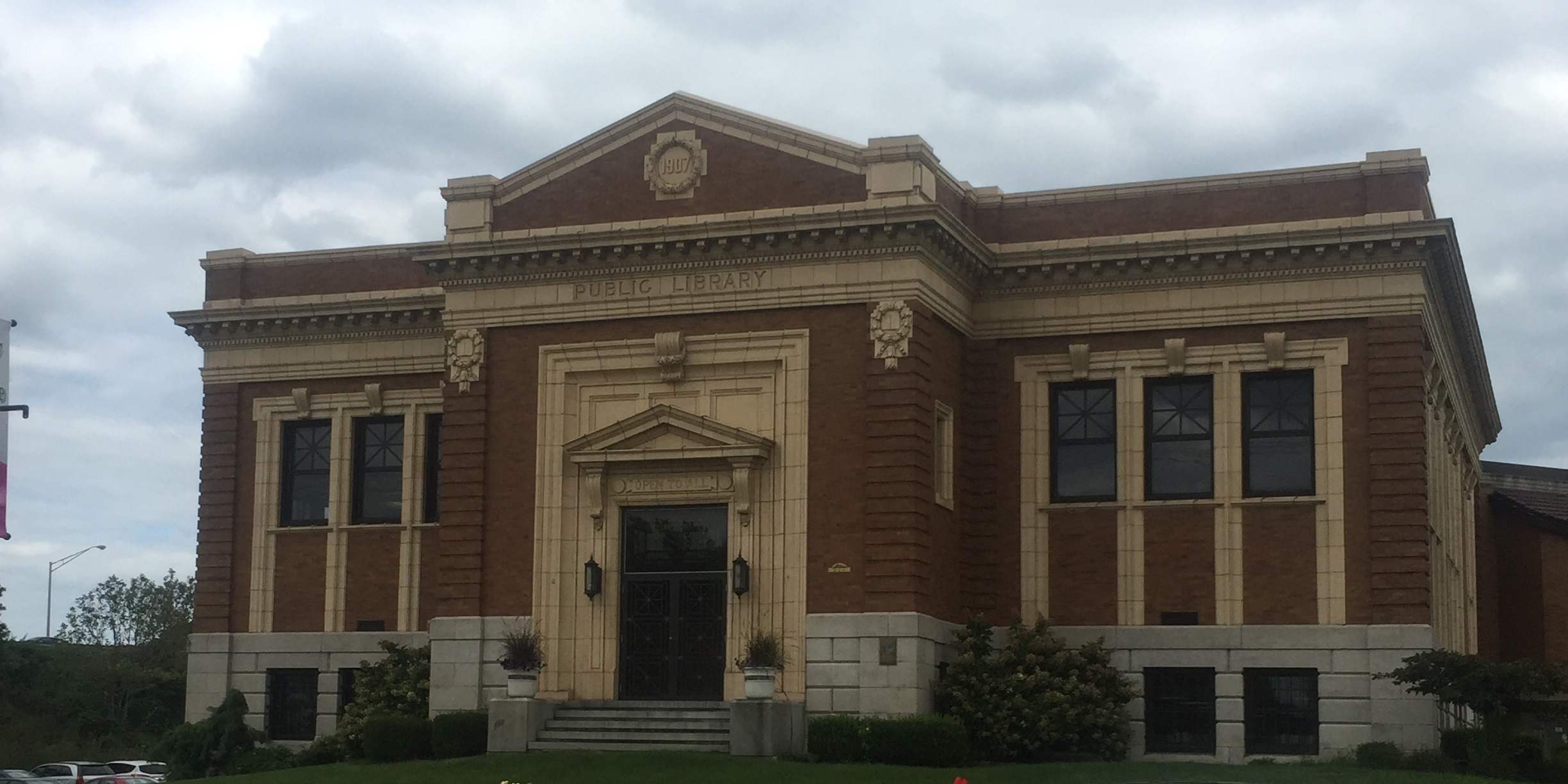 John McIntire Library, Public Library of Zanesville, Ohio, United States.